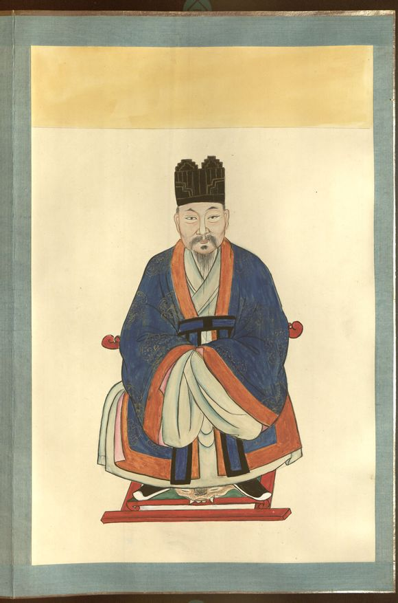 Mu Chu, a local commander of Lijiang